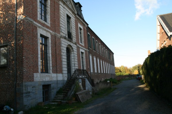 The Orphanage as looked at September 2012